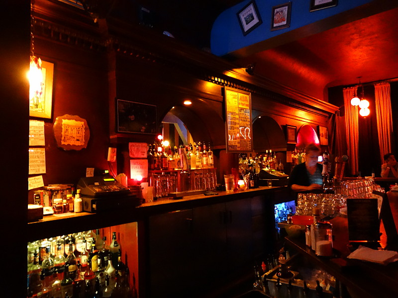 Bar at the Bottom of the Hill music venue in San Francisco, CA, August 2018. Photo by LHCollins.